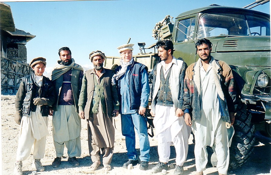 جمال حسين علي في كابول 2001